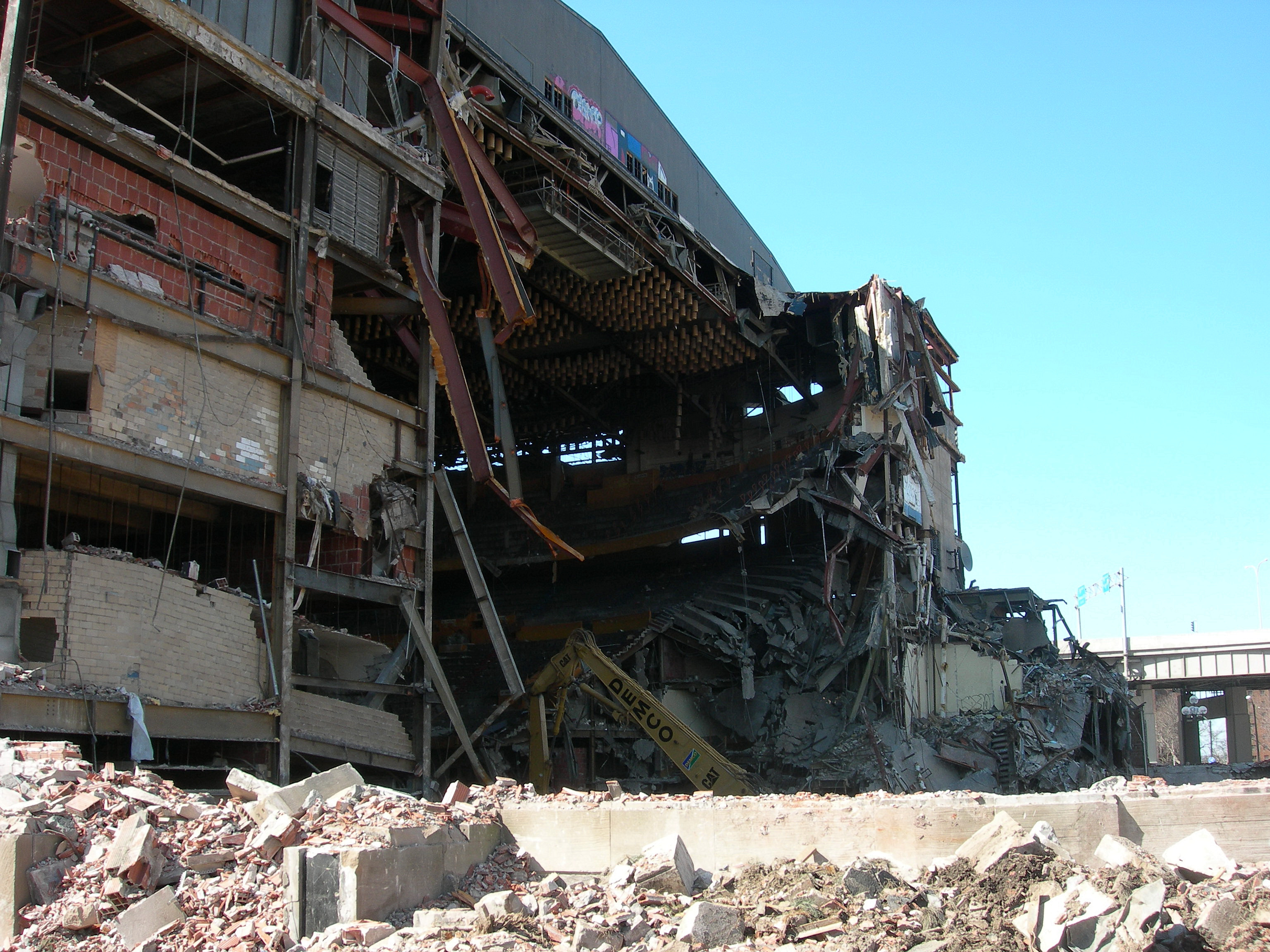 The Buffalo Memorial Auditorium "The Aud" being demolished